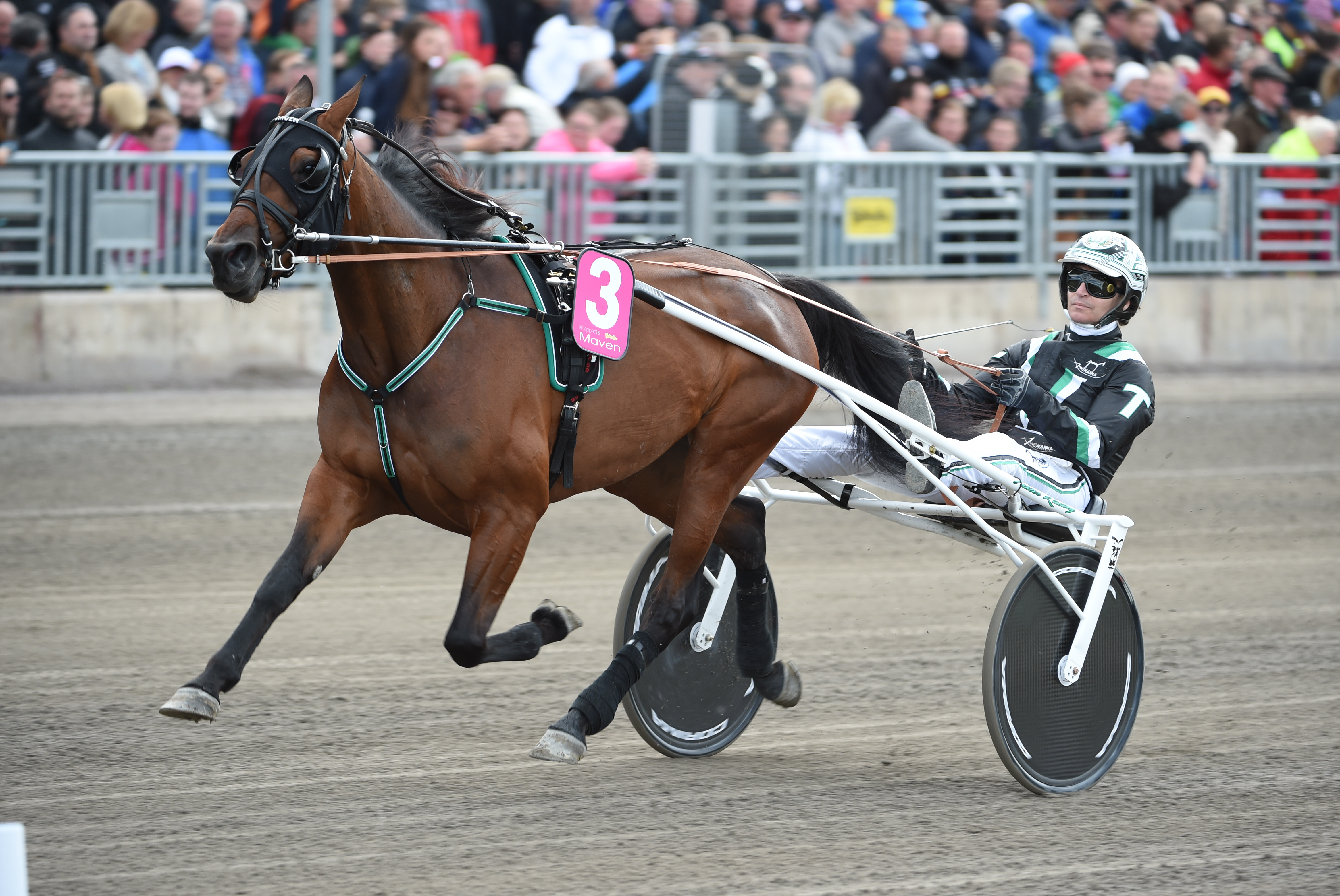 Maven and driver Johnny Takter, Elitloppet at Solvalla in May 2015.